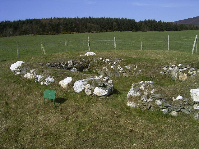 Cabbal Dreem Ruy (or Ballayelse Keeill) 'Chapel of the Red Ridge'. Set some 160m above sea level, this site is just below the moorland and is just south of Cringle Reservoir. A public footpath runs nearby. Back in 1878 the walls were described as being 6 feet high, but by 1930 the chapel (cabbal) was "reduced to the foundations only".